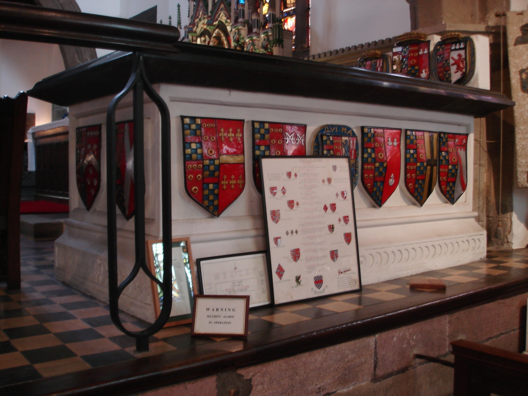 Chest-tomb of George Clifford, 3rd Earl of Cumberland (1558-1605) in Holy Trinity Church, Skipton, West Yorkshire